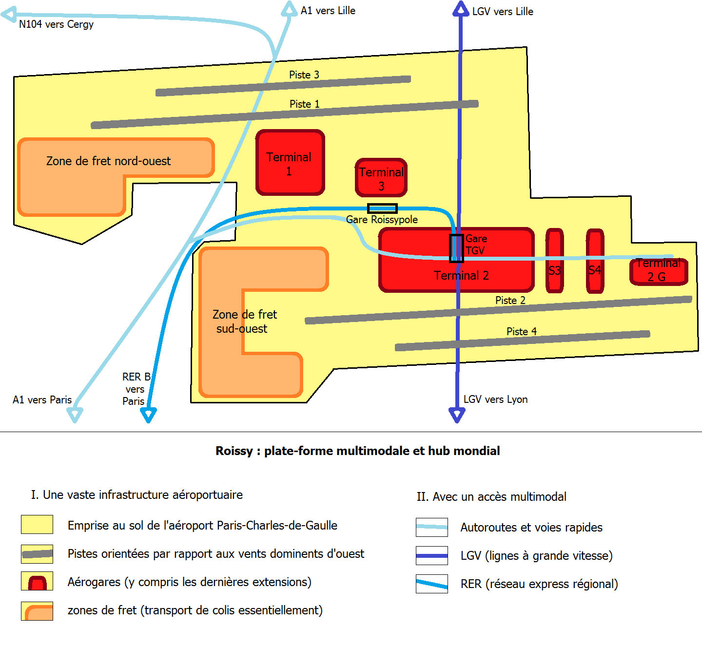 Schema of Paris-CdG Airport.